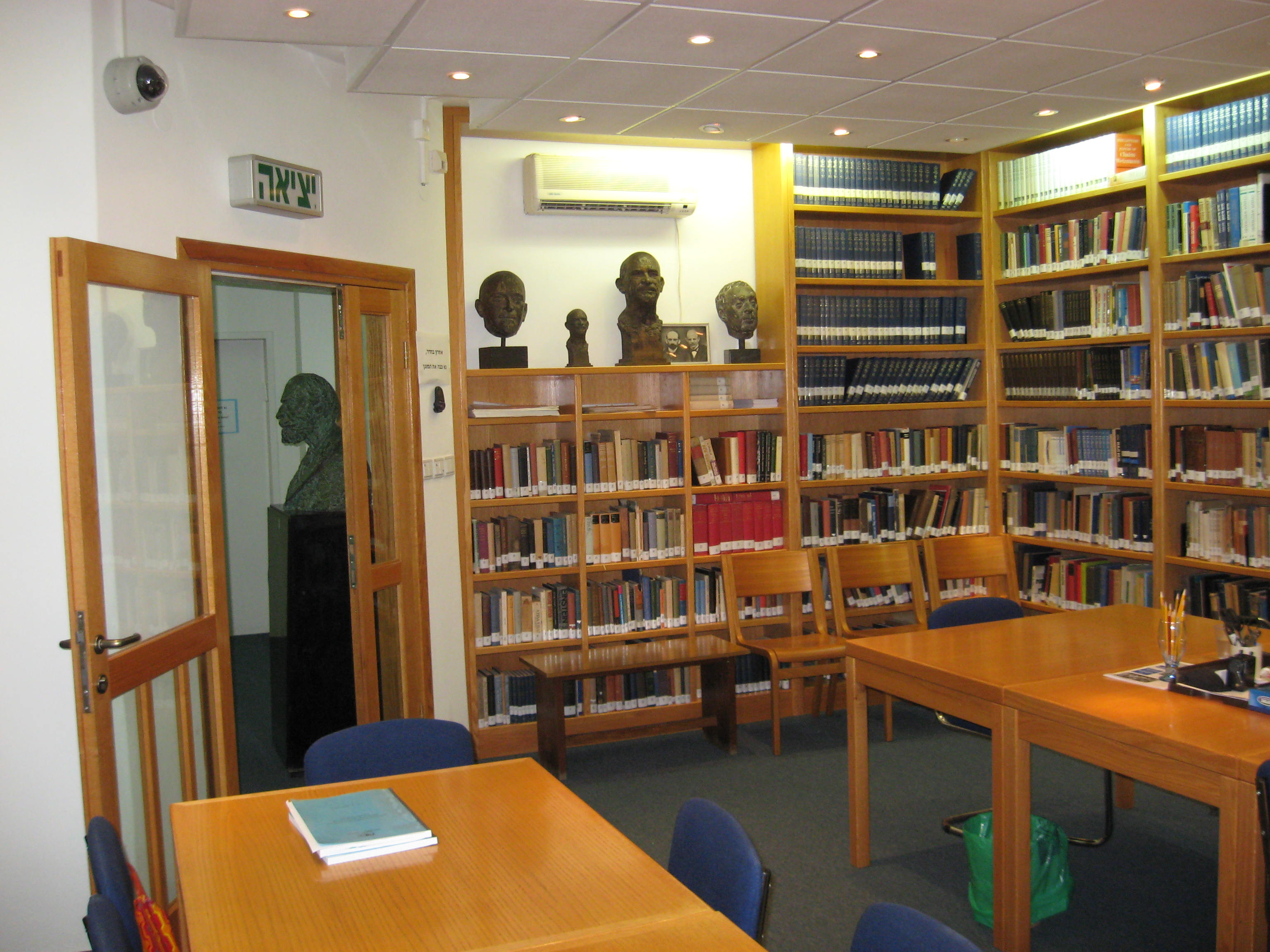 Library at the Weizmann Archives in Rehovot, Israel